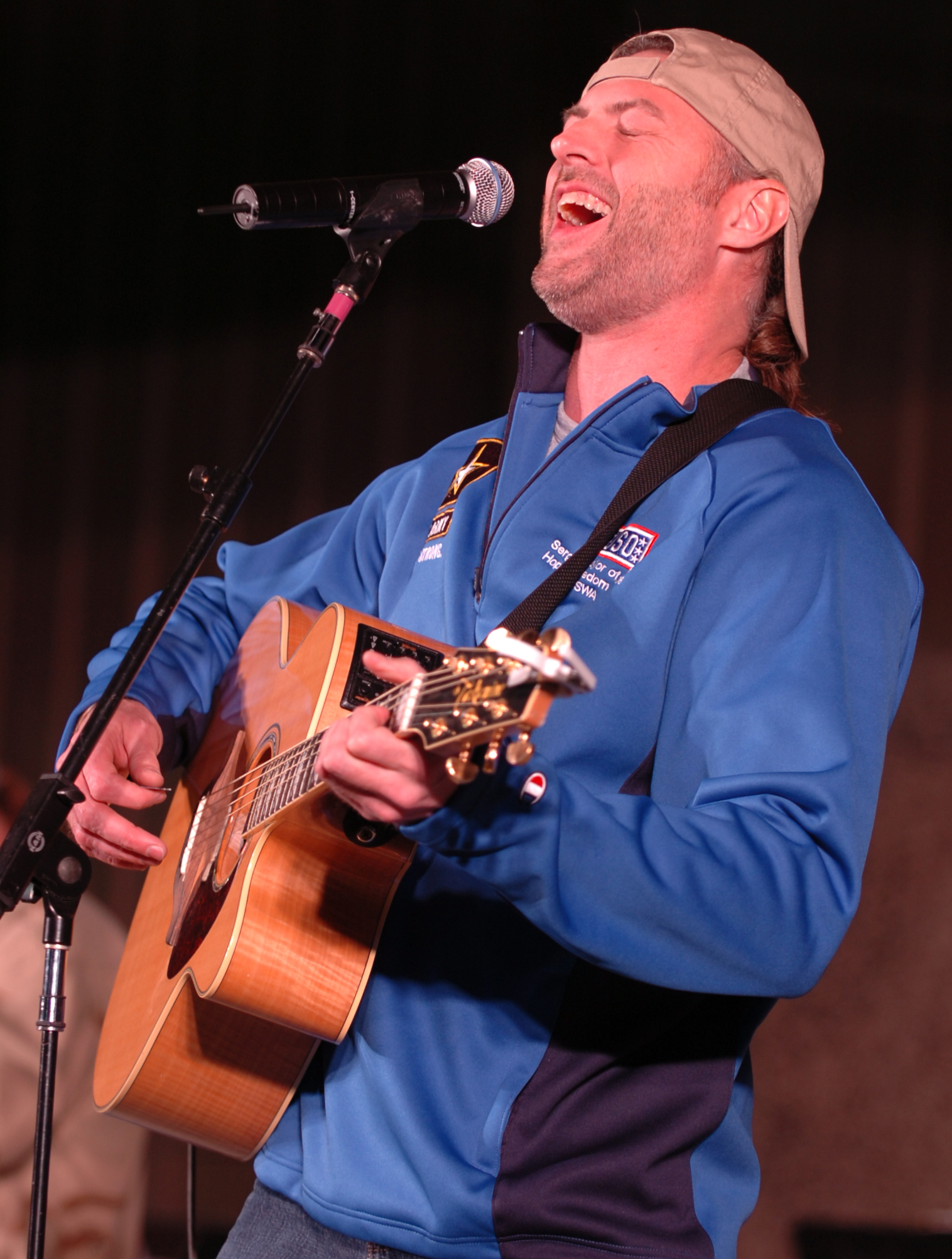 CAMP ARIFJAN, Kuwait – Country music star Darryl Worley performs on camp Thursday in front of more than 2,000 elated servicemembers during the USO Sergeant Major of the Army’s 2006 Hope and Freedom Tour. Worley is touring with country music singers Mark Wills, Keni Thomas, hip-hop artists The Washington Projects, comedian Al Franken, sports commentator Leeann Tweeden and members of the Dallas Cowboy Cheerleader. Camp Arifjan was the first show for the tour which will travel to Iraq next. Lt Gen R. Steven Whitcomb, Third Army/U.S. Army Central commander welcomed the tour to Kuwait and stressed the importance of the work being done to support the war in Iraq.